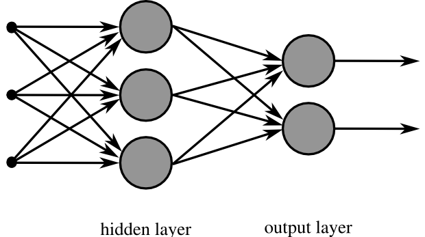 A Neural network with two layers.